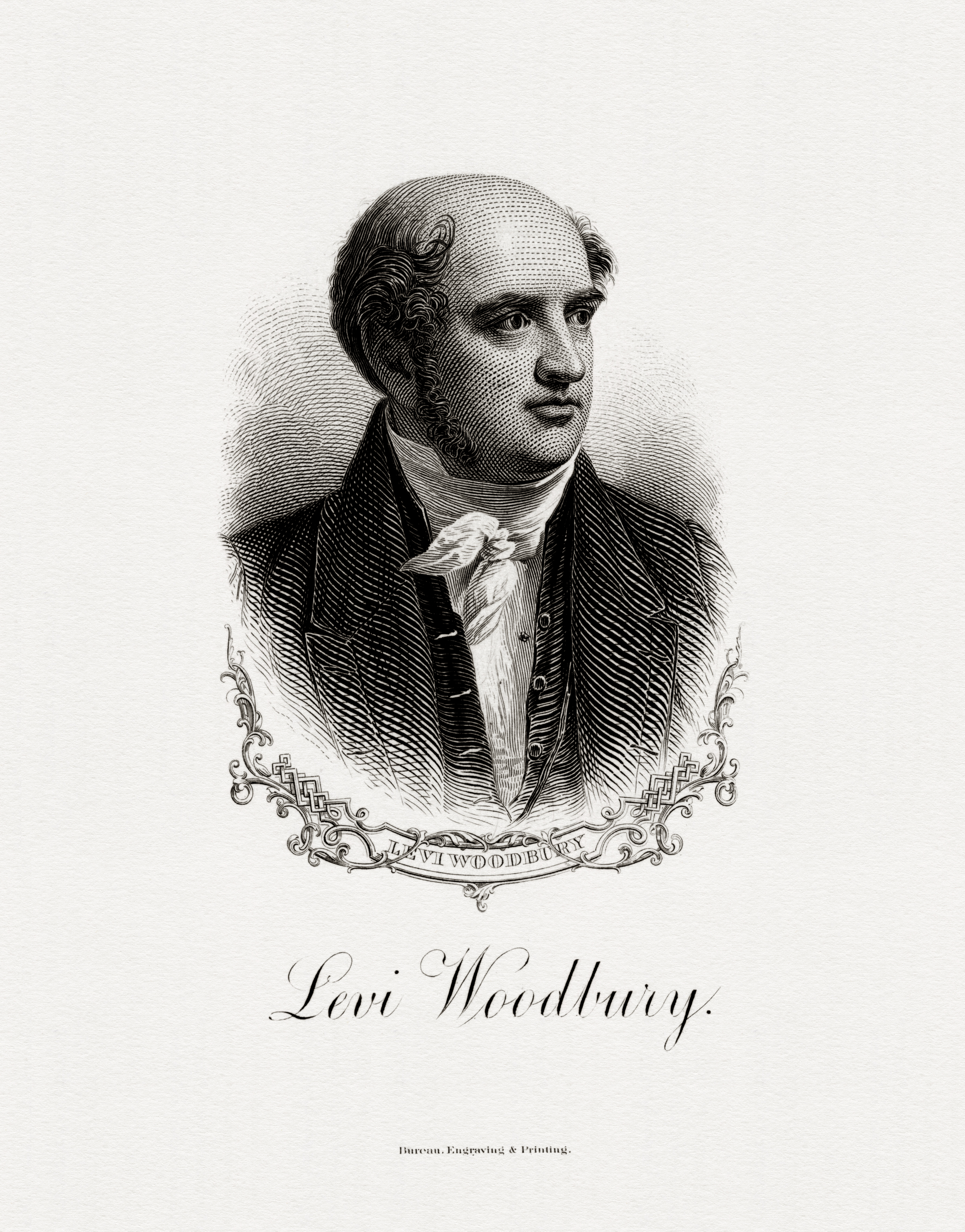 Engraved BEP portrait of U.S. Secretary of the Treasury Levi Woodbury